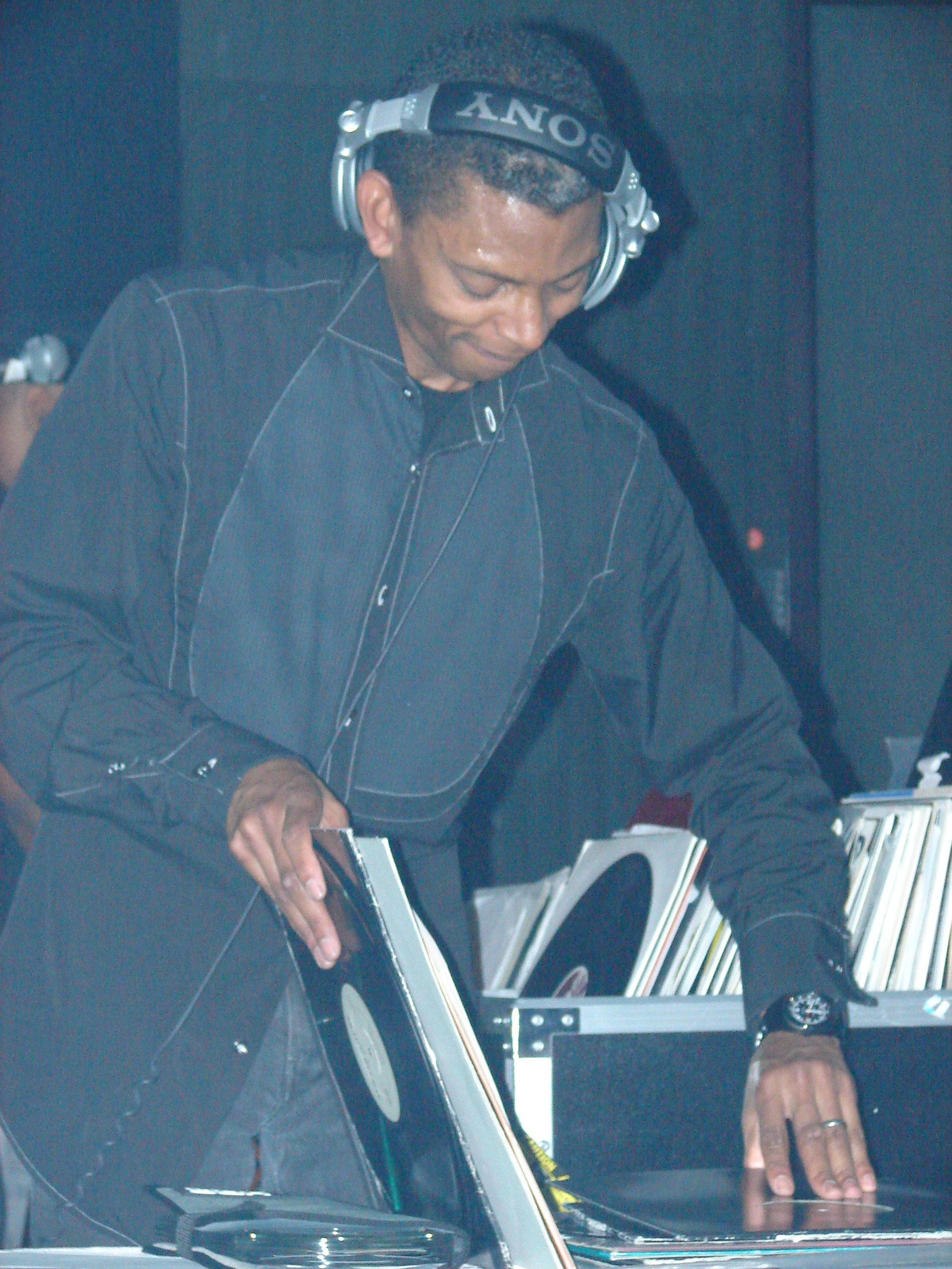 Jeff Mills